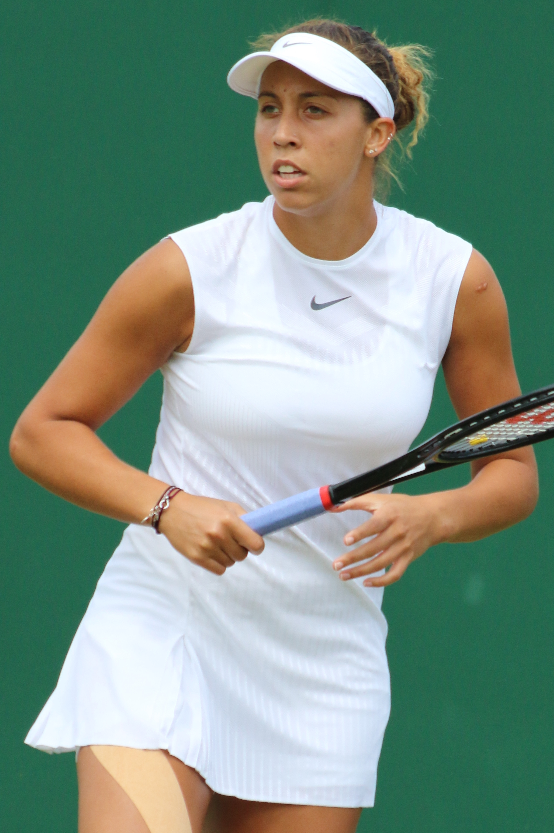 Keys WM17 (3)